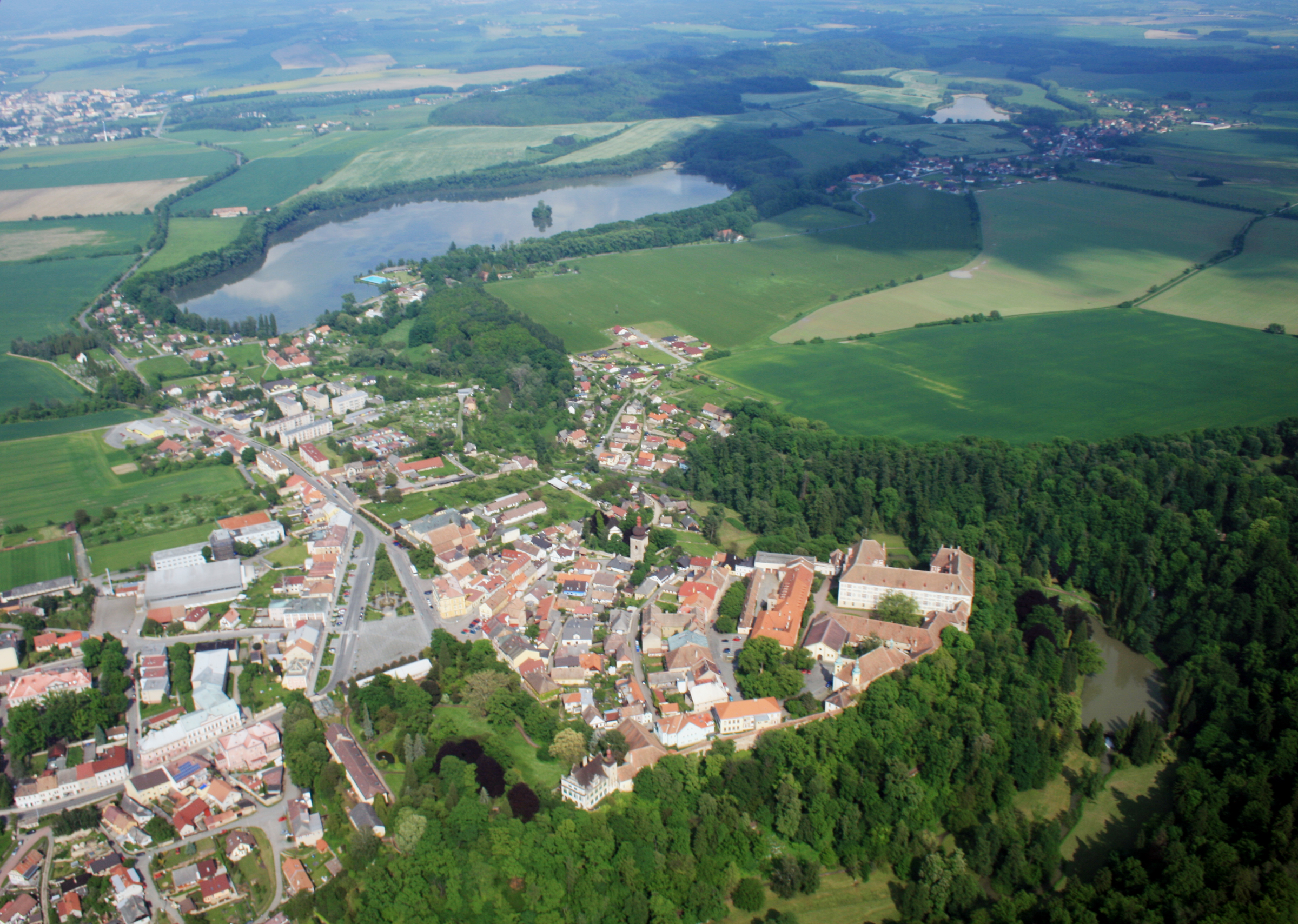 Opočno castle and Opočno town with pond Broumar from air, eastern Bohemia, Czech Republic